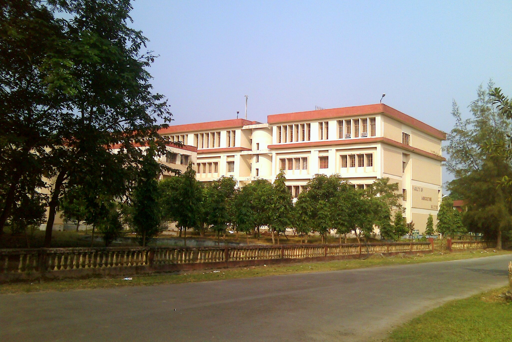 Way to the Faculty of Ag. after entering the main gate